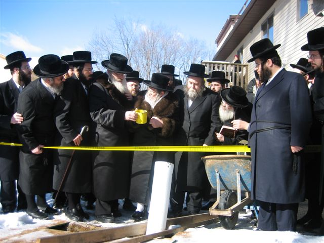 Two Hassidic Grand Rebbes with their entourage